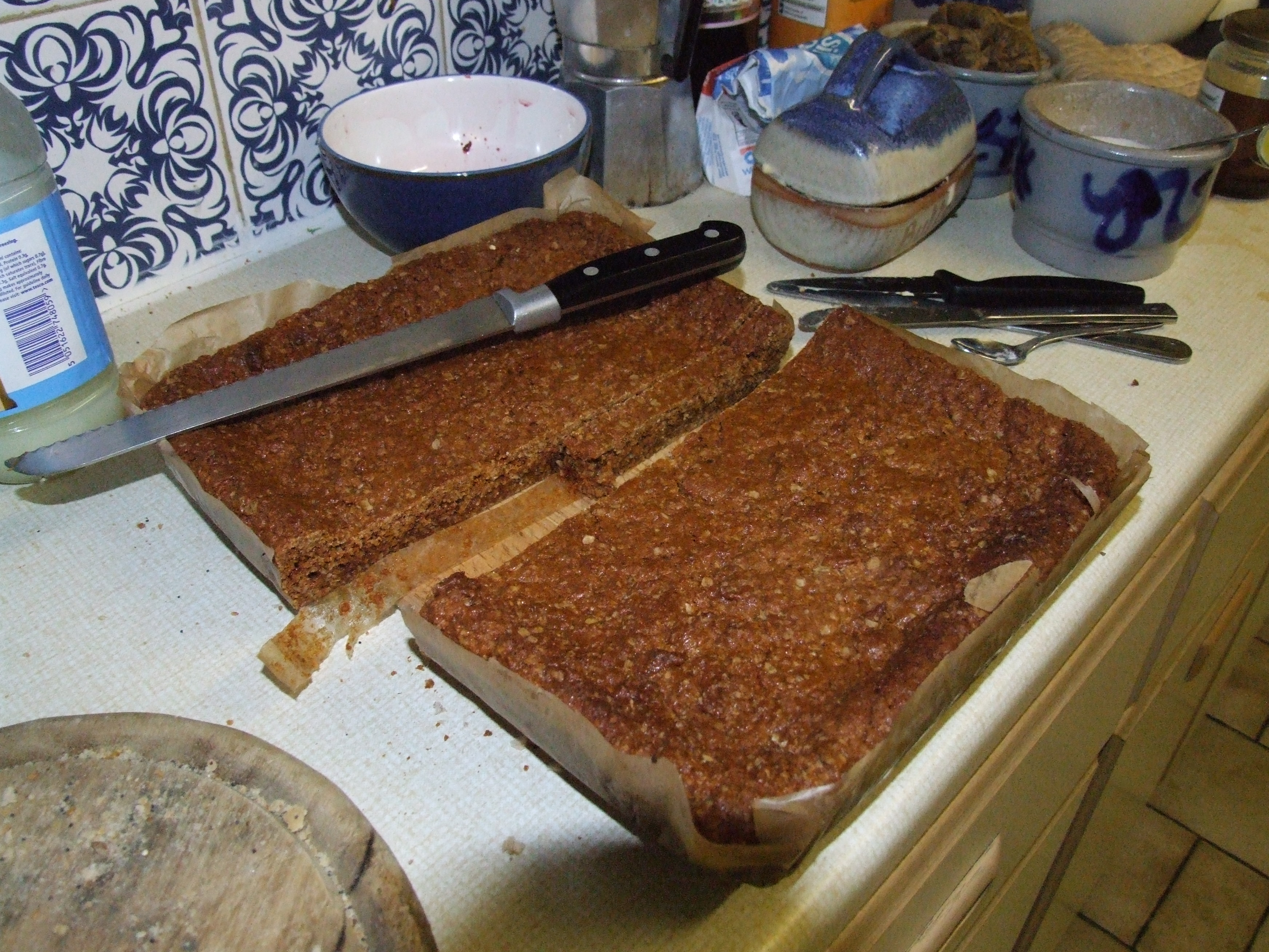 Lancashire Parkin straight out of the oven. Parkin is only eaten between September and 31st December- this was the last batch of the year. It was cooked to the recipe of Meliora Waring Rutter, of Ashton-upon-Mersey, who baked it in the 1950s when it cost 1 shilling, it was cooked in the 1970ś when it cost 12 shillings (60p).